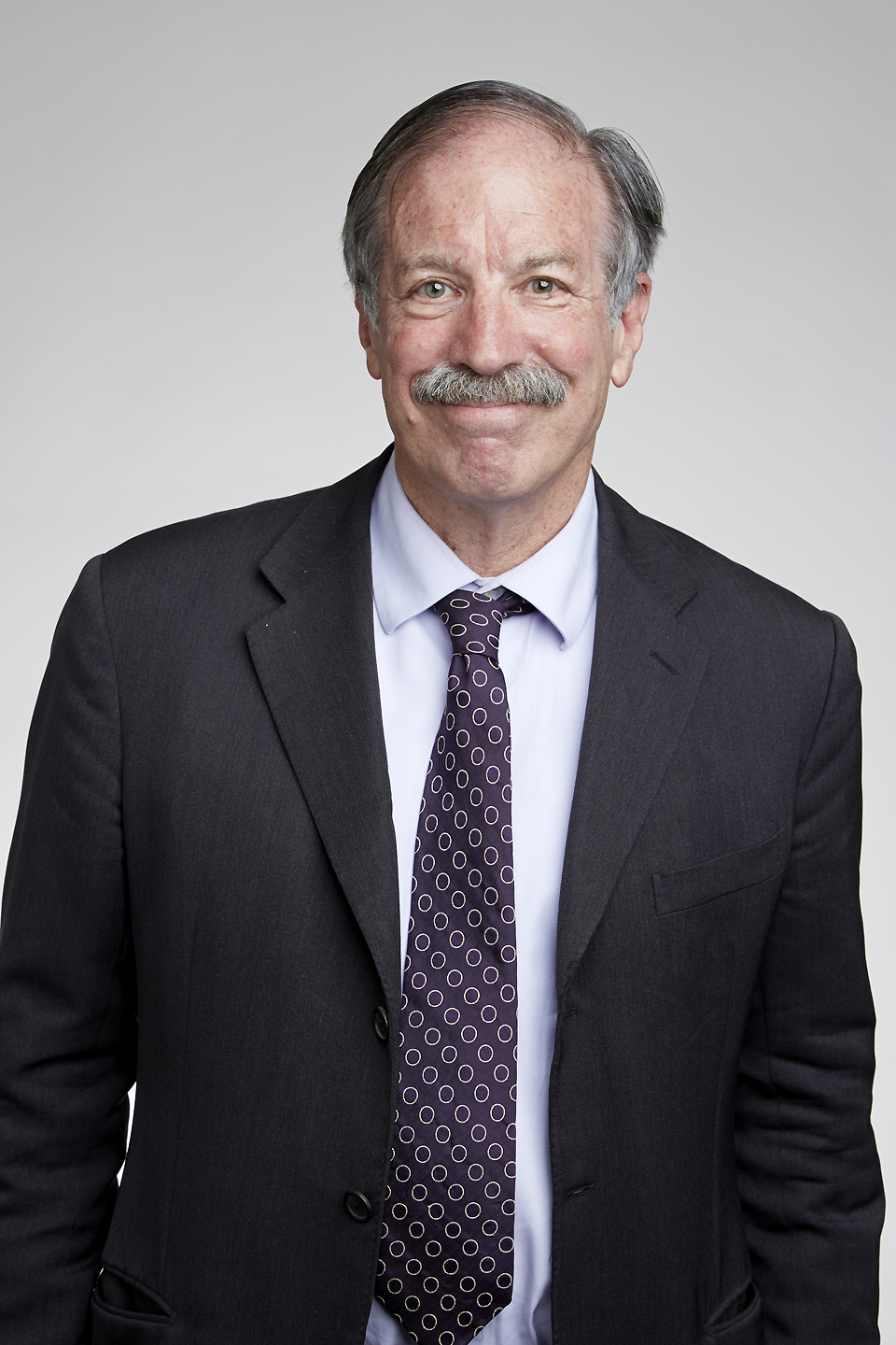 Jack Cuzick FRS (born 11 August 1948) is a British academic, director of the Wolfson Institute of Preventive Medicine in London and head of the Centre for Cancer Prevention. He is the John Snow Professor of Epidemiology at the Wolfson Institute, Queen Mary University of London. Attribution: The Royal Society